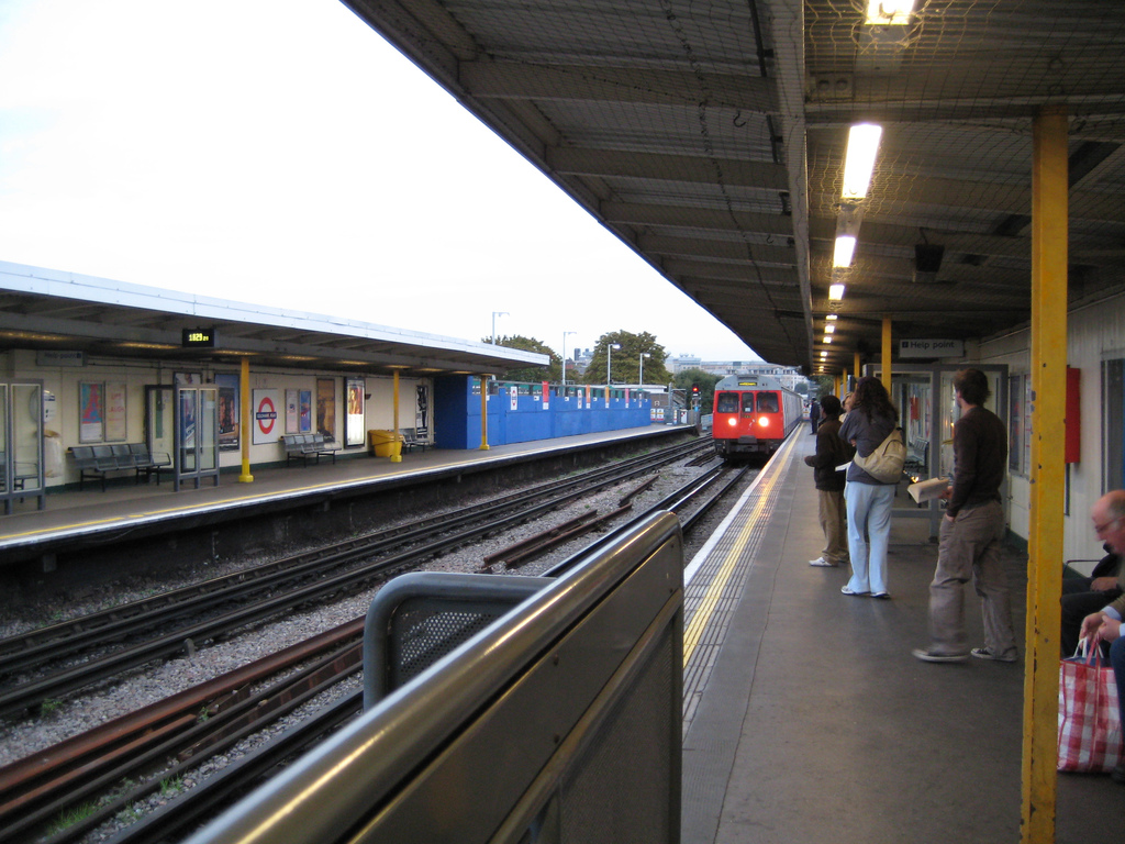 Goldhawk Road London Underground station, Hammersmith & City Line, London